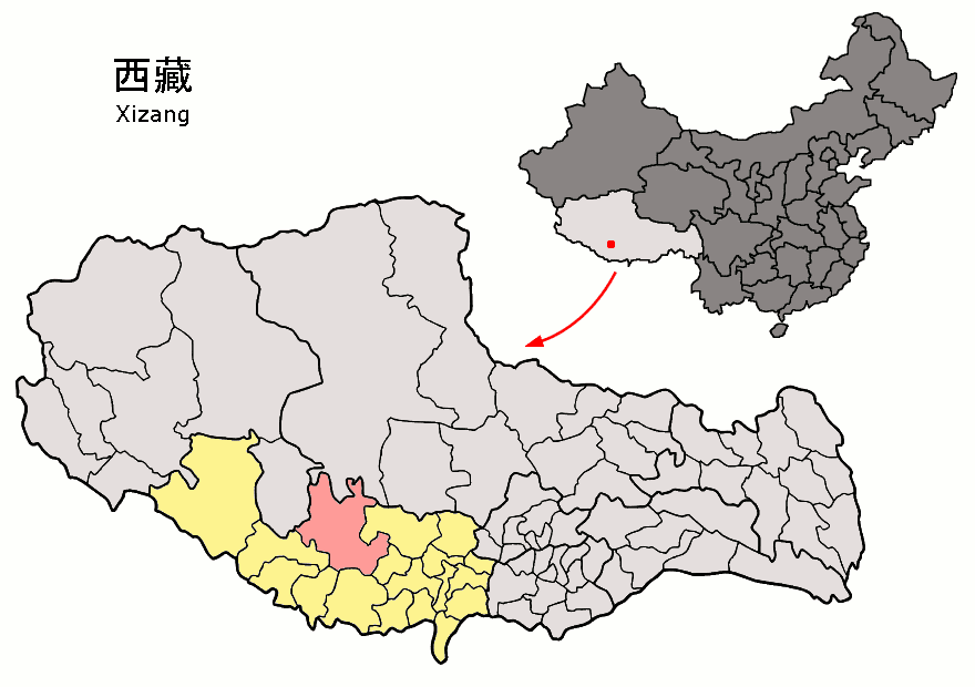 Location of Ngamring County (pink) and Xigazê Prefecture (yellow) within Tibet (Xizang) autonomous region of China